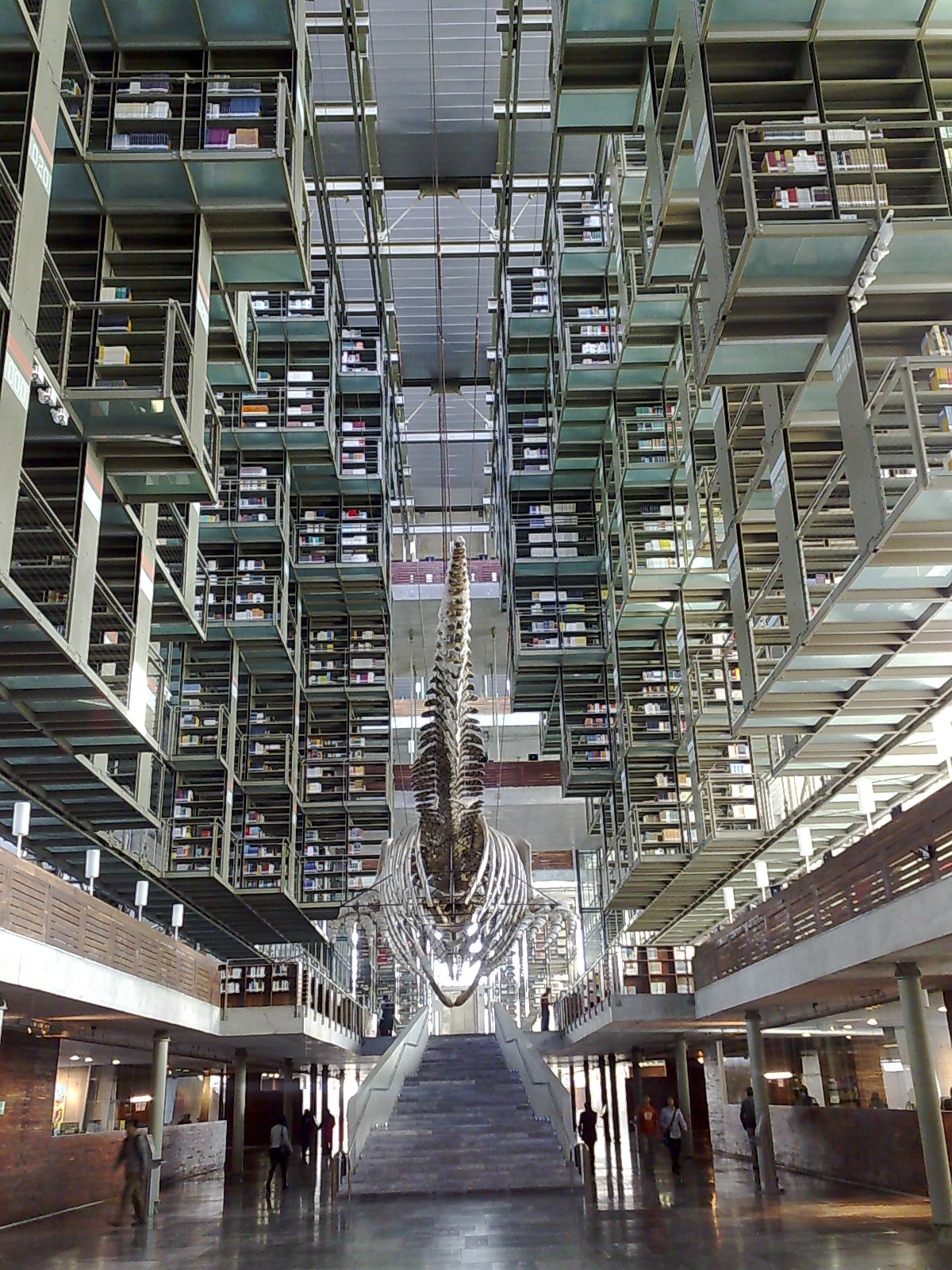 Inside the "Jose Vasconcelos" library; Mexico City. At the centerl, the painted real whale skeleton, _Ballena_ (Gabriel Orozco, 2006)